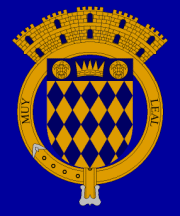 Arecibo seal